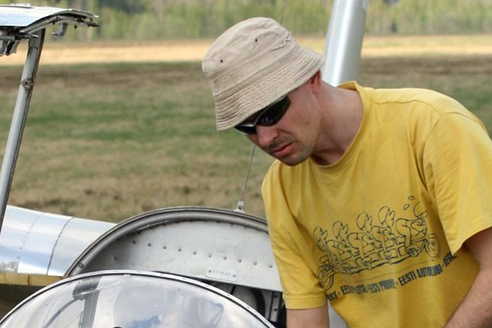 Glider pilot with a bucket hat